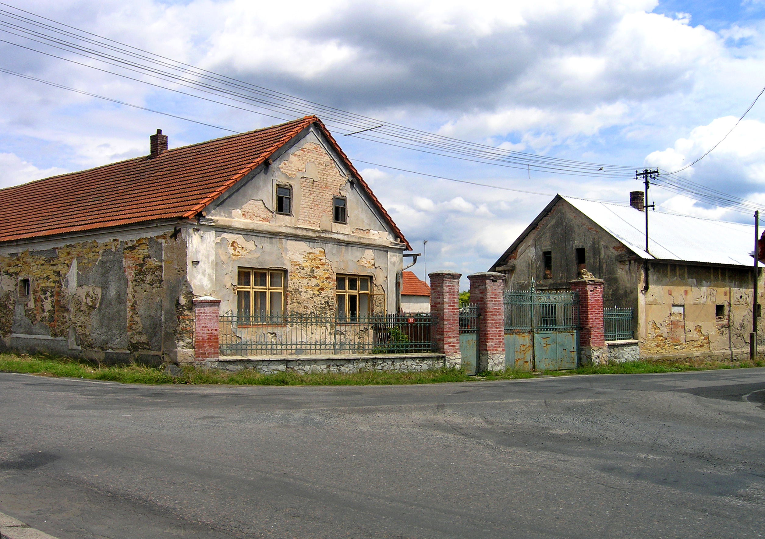 Old farm in Bělušice village, Czech Republic